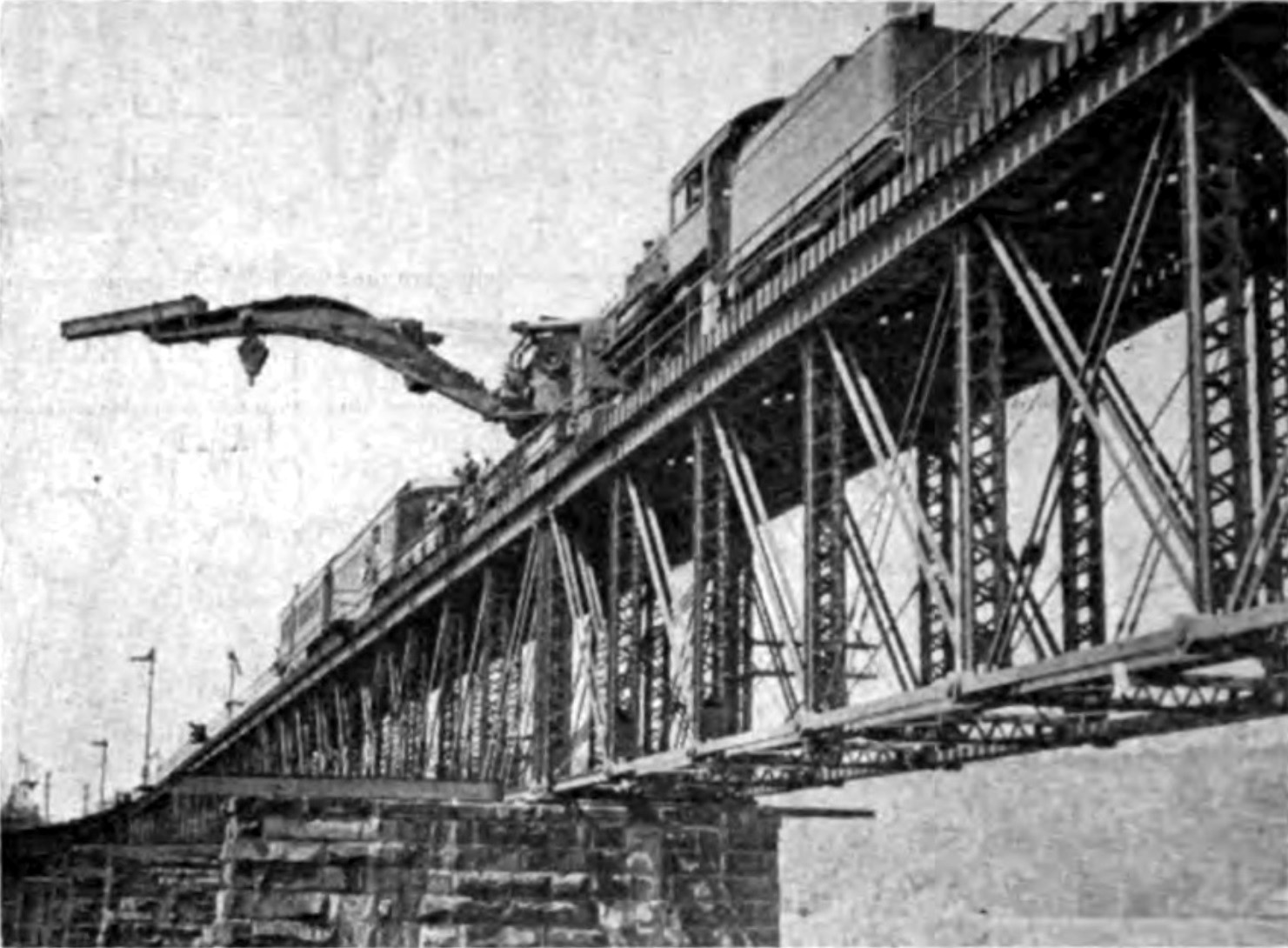 Original Description: Derrick on half of steel bridge unloadding material onto trestle